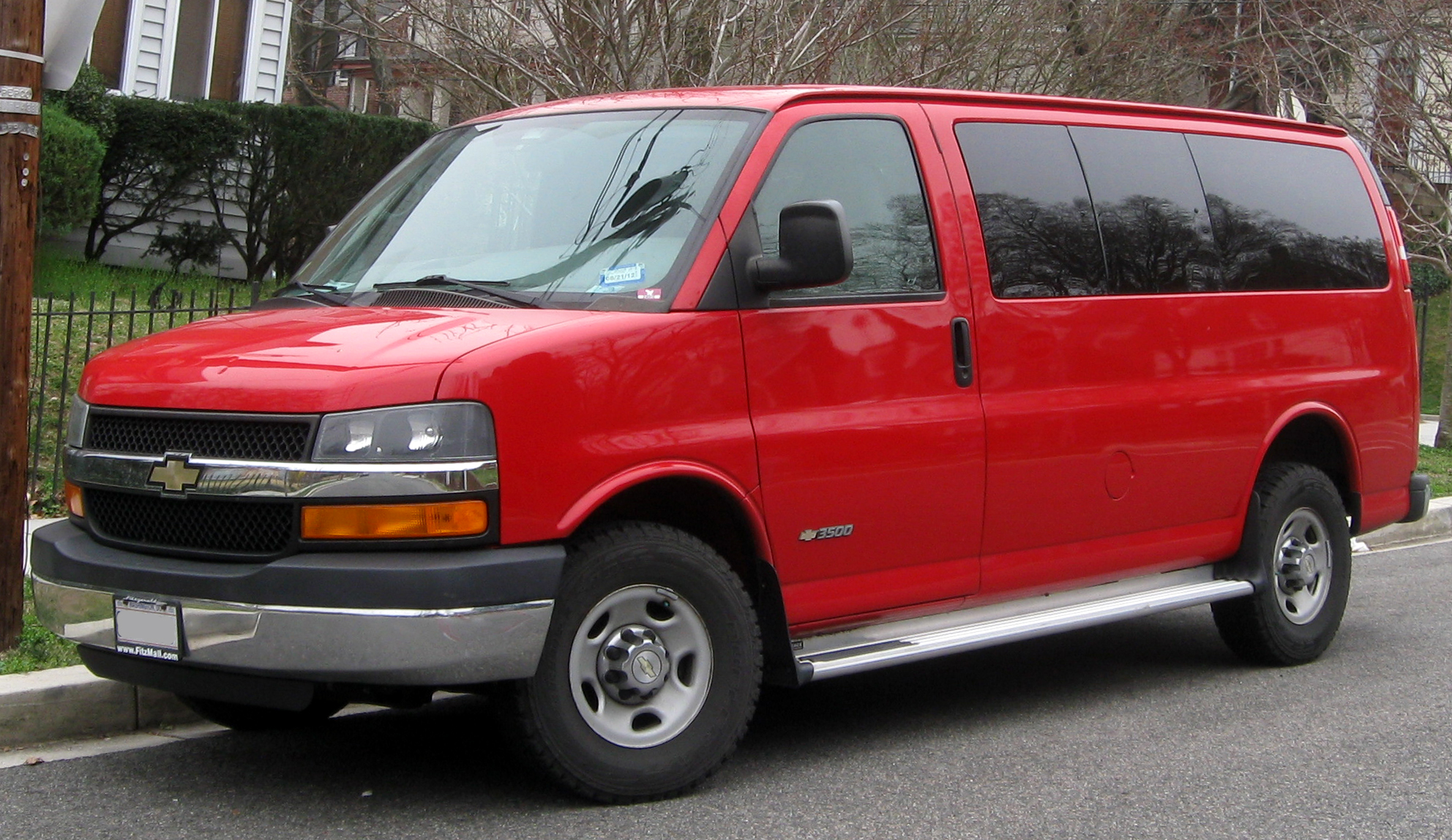 Chevrolet Express photographed in Washington, D.C., USA.